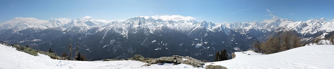 Panorama from Court de Bard (Penine Alps, Aosta Valley, IT)